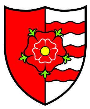 Coat of Arms of the Municipality of Estavayer-le-Lac in Switzerland